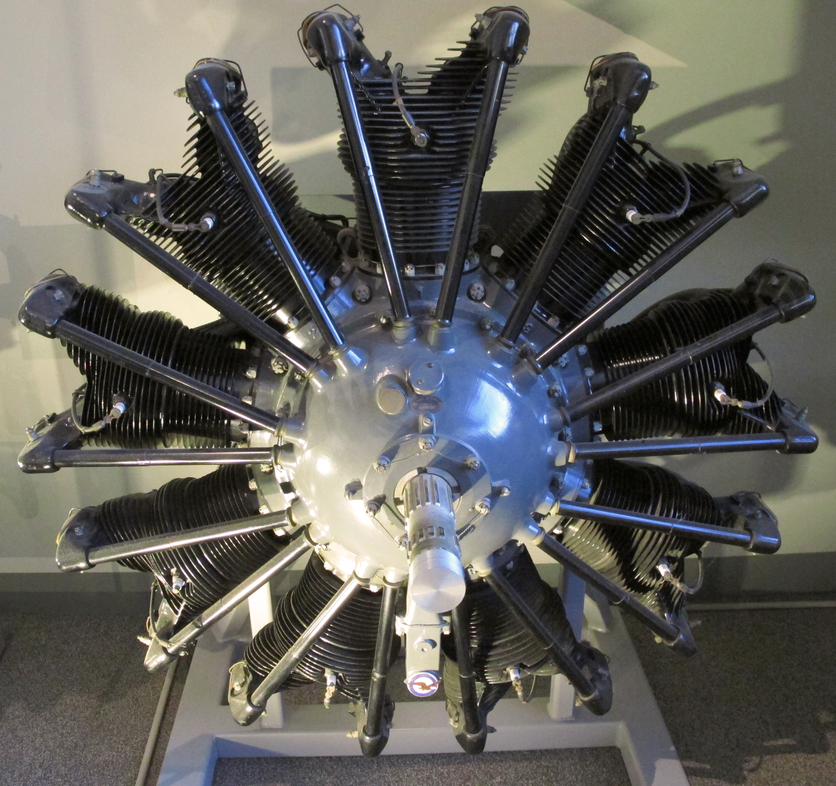 The 425 HP, 9 cylinder air cooled wasp became the preferred engine for many military and commercial aircraft, including the Ford 5-AT Tri-Motor and the Boeing 40A. The picture shown is the first built Wasp. Displayed at the Smithsonian's National Air and Space Museum, Washington, DC. Displacement: 22.2L (1344 cu in). Power: 425 hp at 1900 rpm. Weight: 295 kg (650 lb). Manufacturer: Pratt & Whitney Aircraft Co., Hartford, Conn.